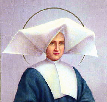 Saint Catherine Laboure